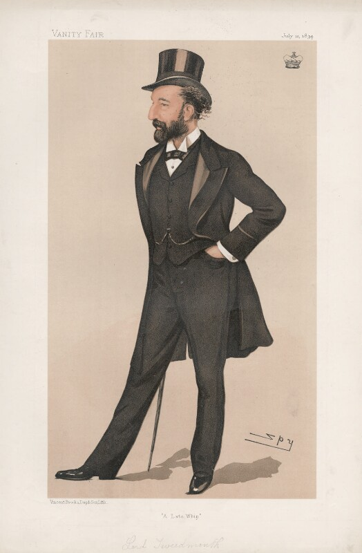 Portrait of Edward Marjoribanks, 2nd Baron Tweedmouth. Caption read "A Late Whip".